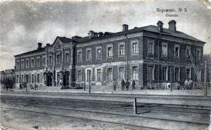 Korenevo Train Station (Мoscow-Kiev-Voronezh Railway) in the begining of XX century. View from railways